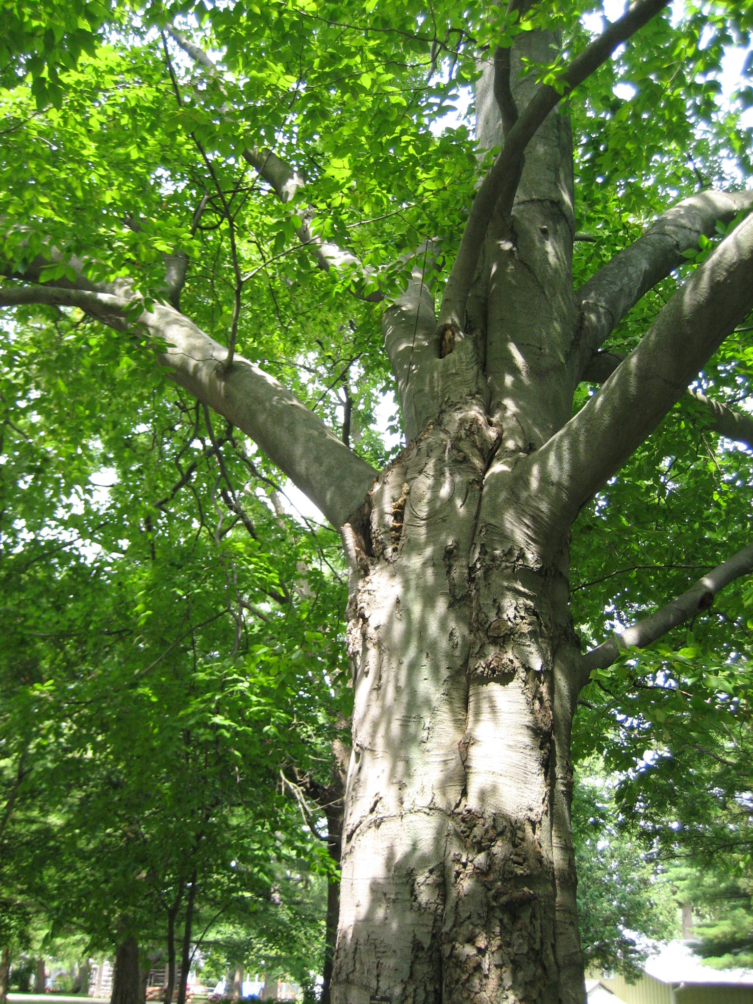 Oscar Taylor House, an American beech tree on the grounds of the house. Freeport, Illinois USA. U.S. National Register of Historic Places.